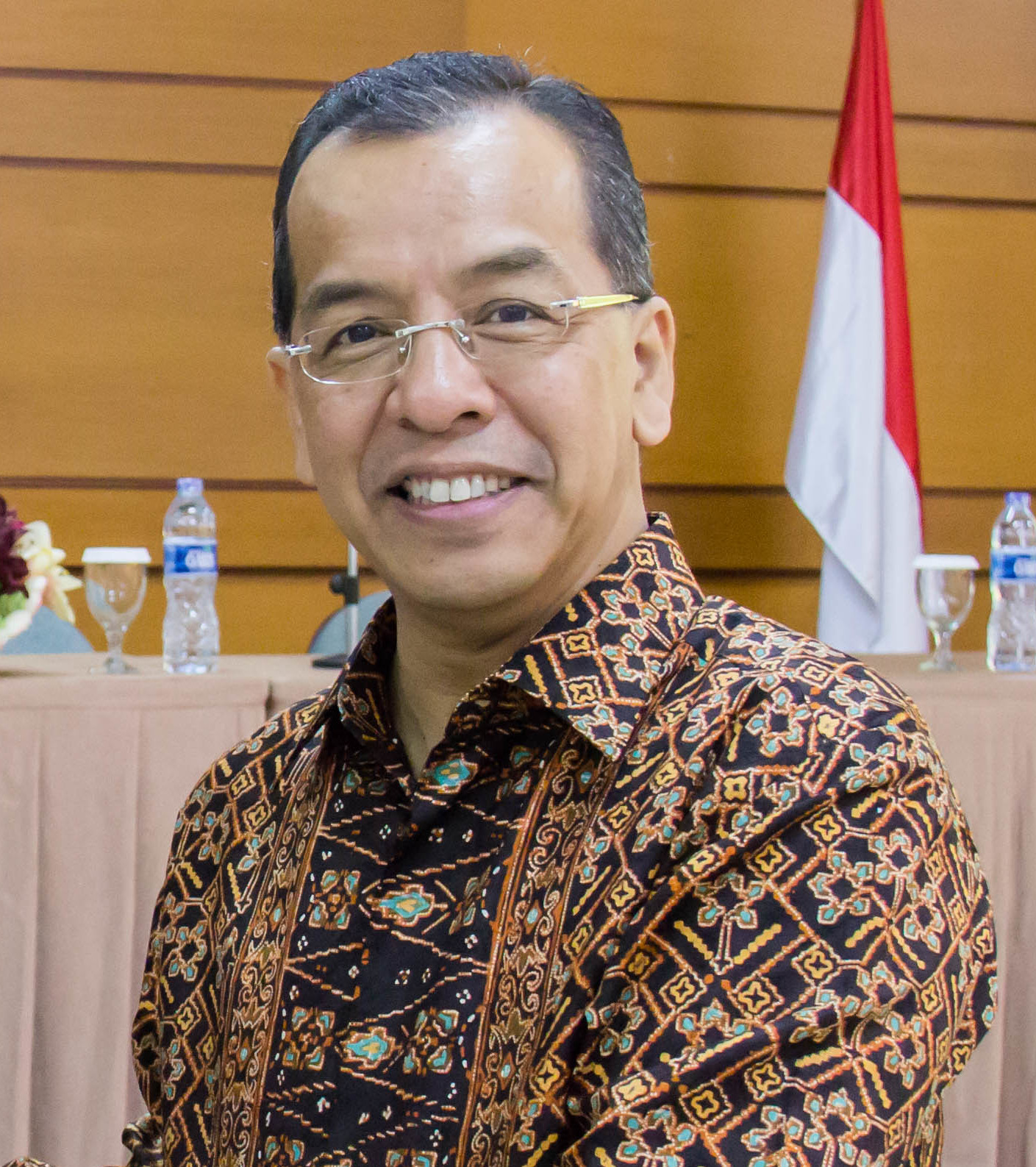 In order to improve service excellence, BPK RI Pusdiklat invited Emirsyah Satar (former President Director of PT Garuda Indonesia Tbk) to share experiences in the development and improvement of service excellence on Monday, March 16, 2015 at the BPK RI Pusdiklat Hall.